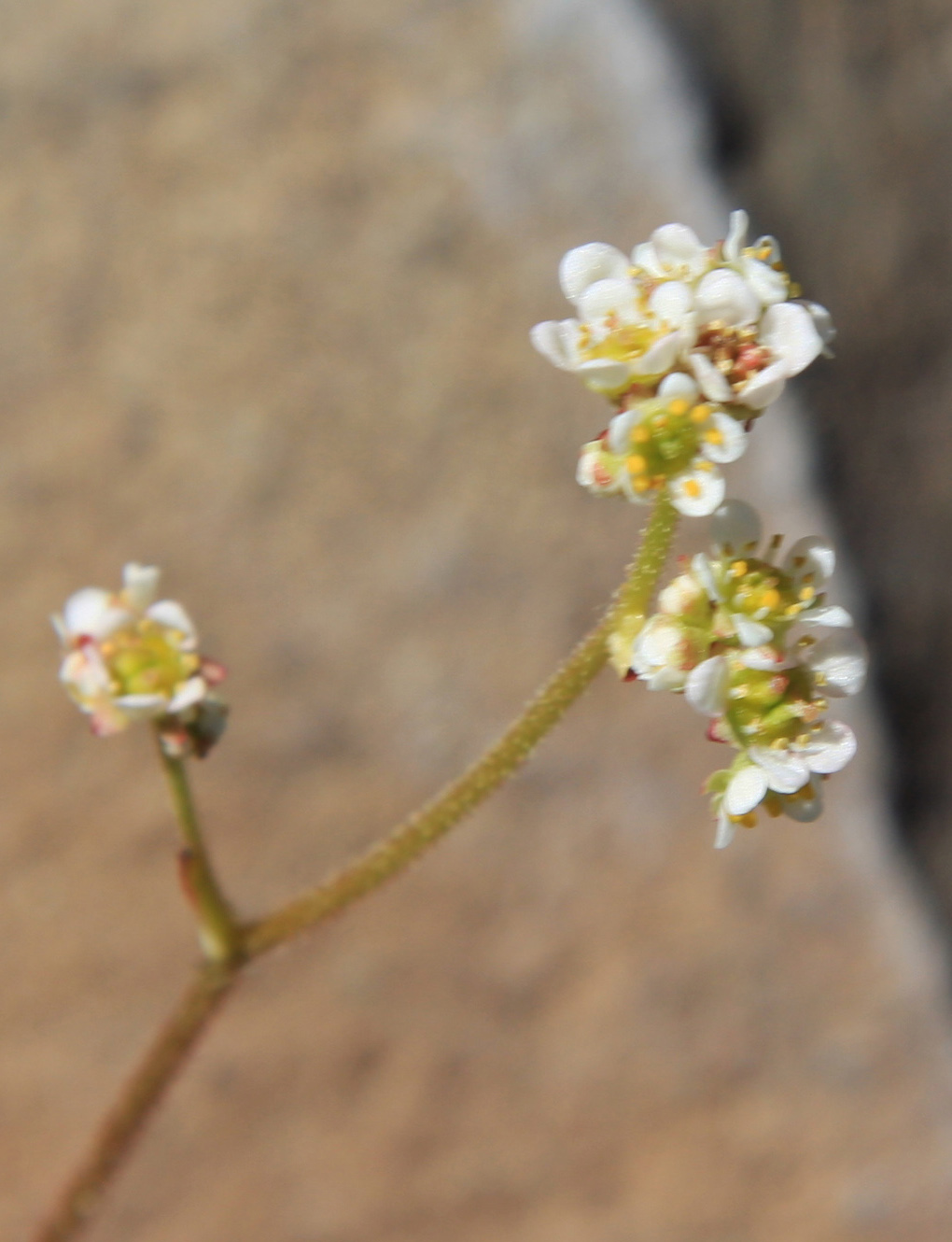 Sierra saxifrage (Saxifraga aprica) — closeup of flowers. At 2,884 m (9,462 ft) on rocky cliff-top below the High Sierra trail (part of the Pacific Crest Trail) from Agnew Meadows to Agnew Pass, Ansel Adams Wilderness, California.